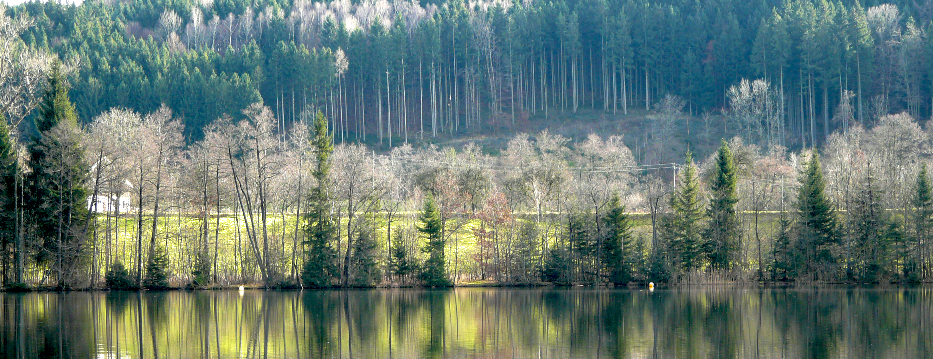 Tüttensee-Bavaria-Germany